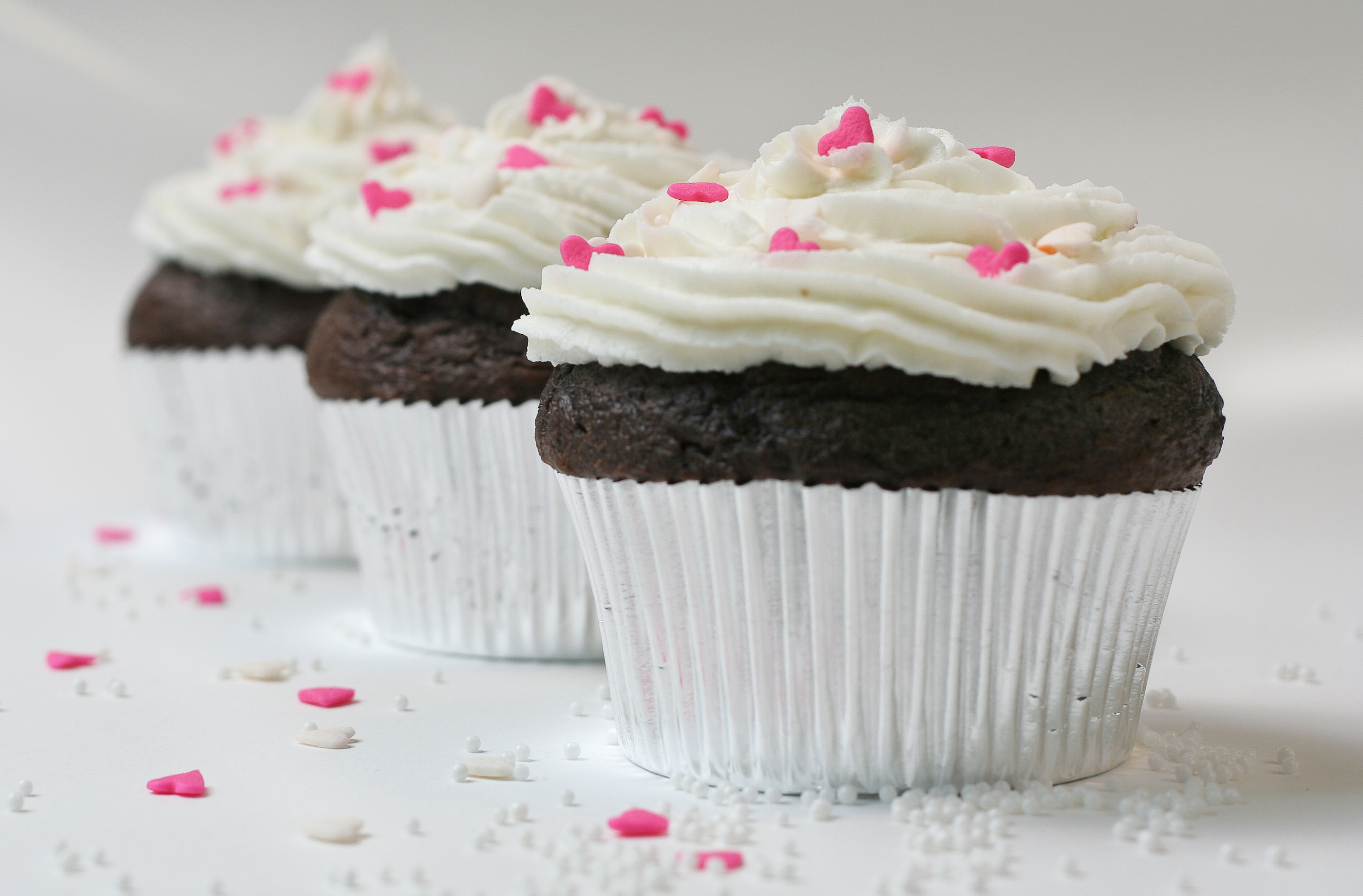 Chocolate cupcakes with sugar hearts and nonpareils